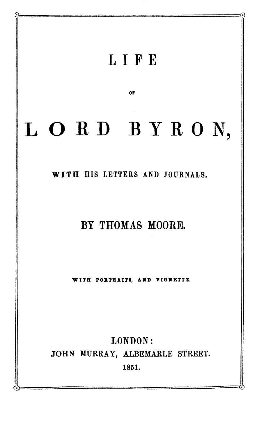 Title-page of Life of Lord Byron: With His Letters and Journals by Thomas Moore